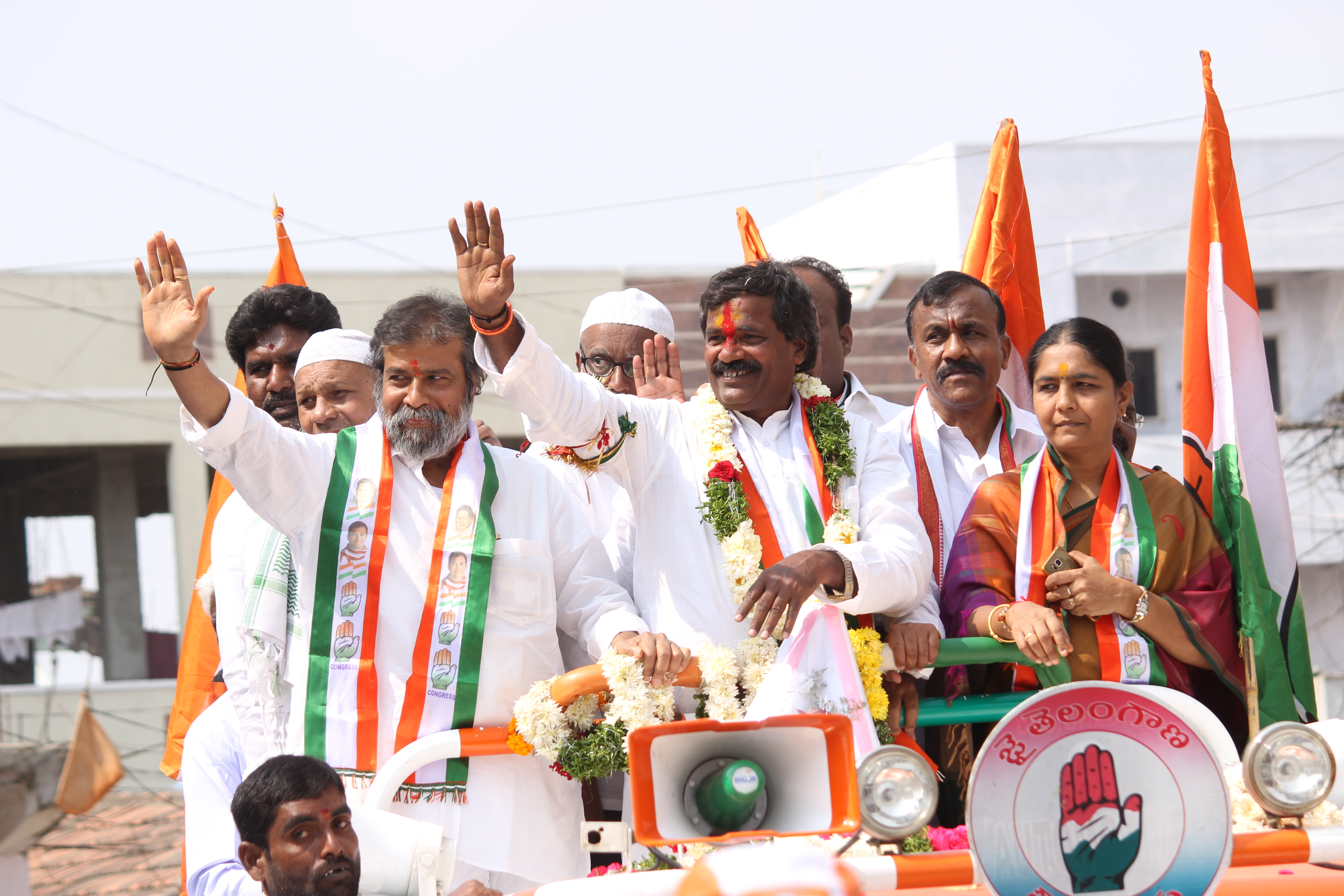 Photo During Nomination Rally Of M Shankar Yadav